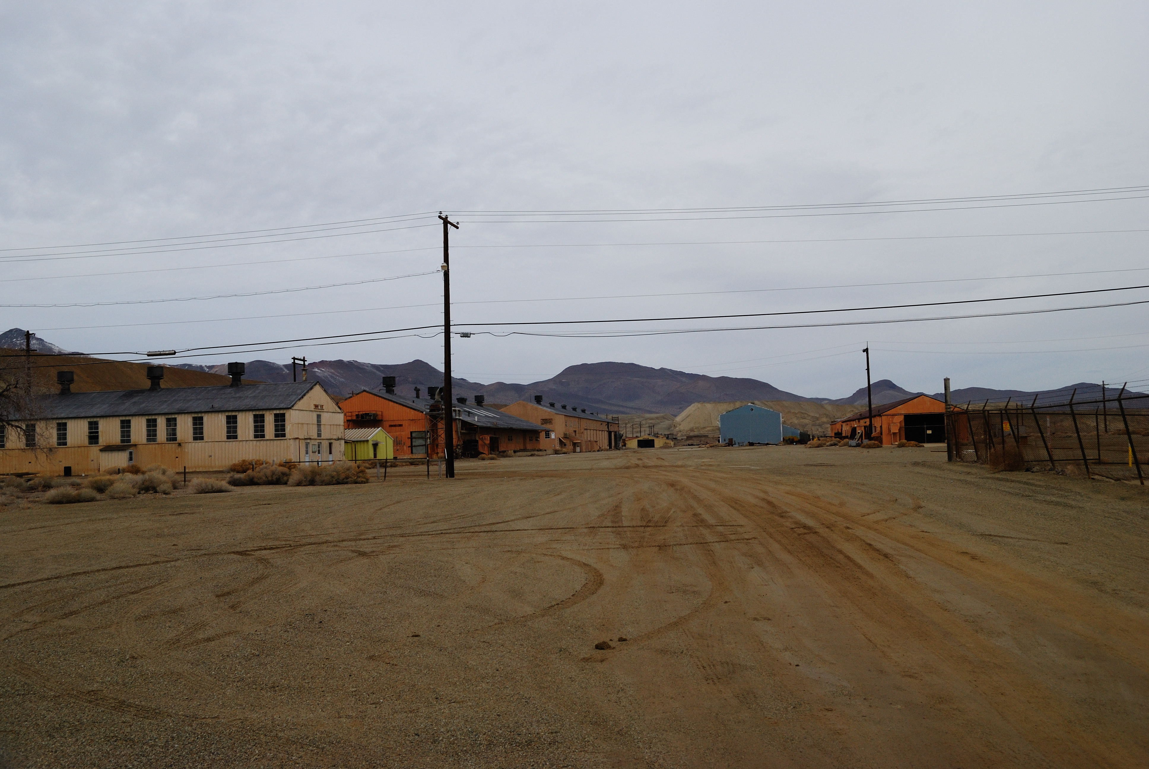 Abandoned processing facilities at the Anaconda Copper Mine, near Yerington, Lyon County, western Nevada.